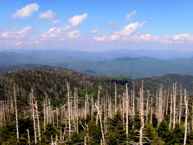 View across the eastern slope of Clingmans Dome in the Great Smoky Mountains of Tennessee and North Carolina. The trunks of dead Fraser firs dominate much of the spruce-fir stand in the foreground.